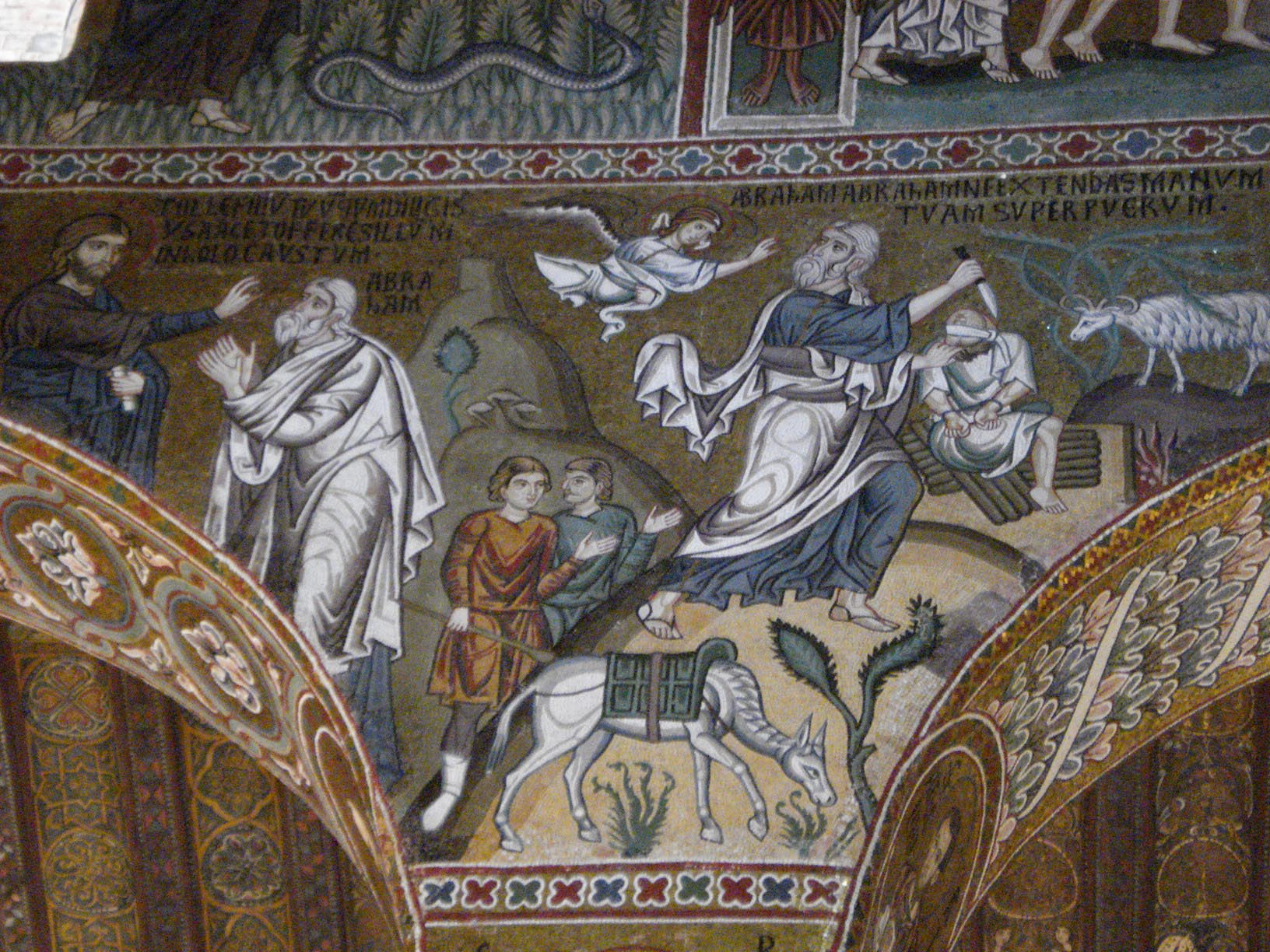 Abraham's sacrifice